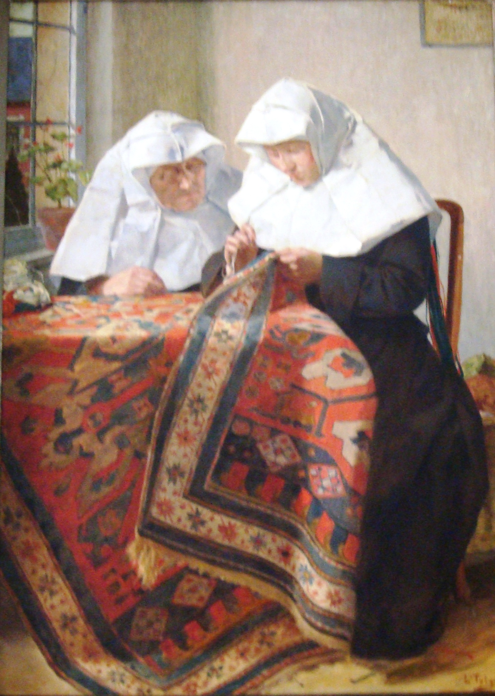 Painting with Beguines by the Belgian painter Louis Tytgadt